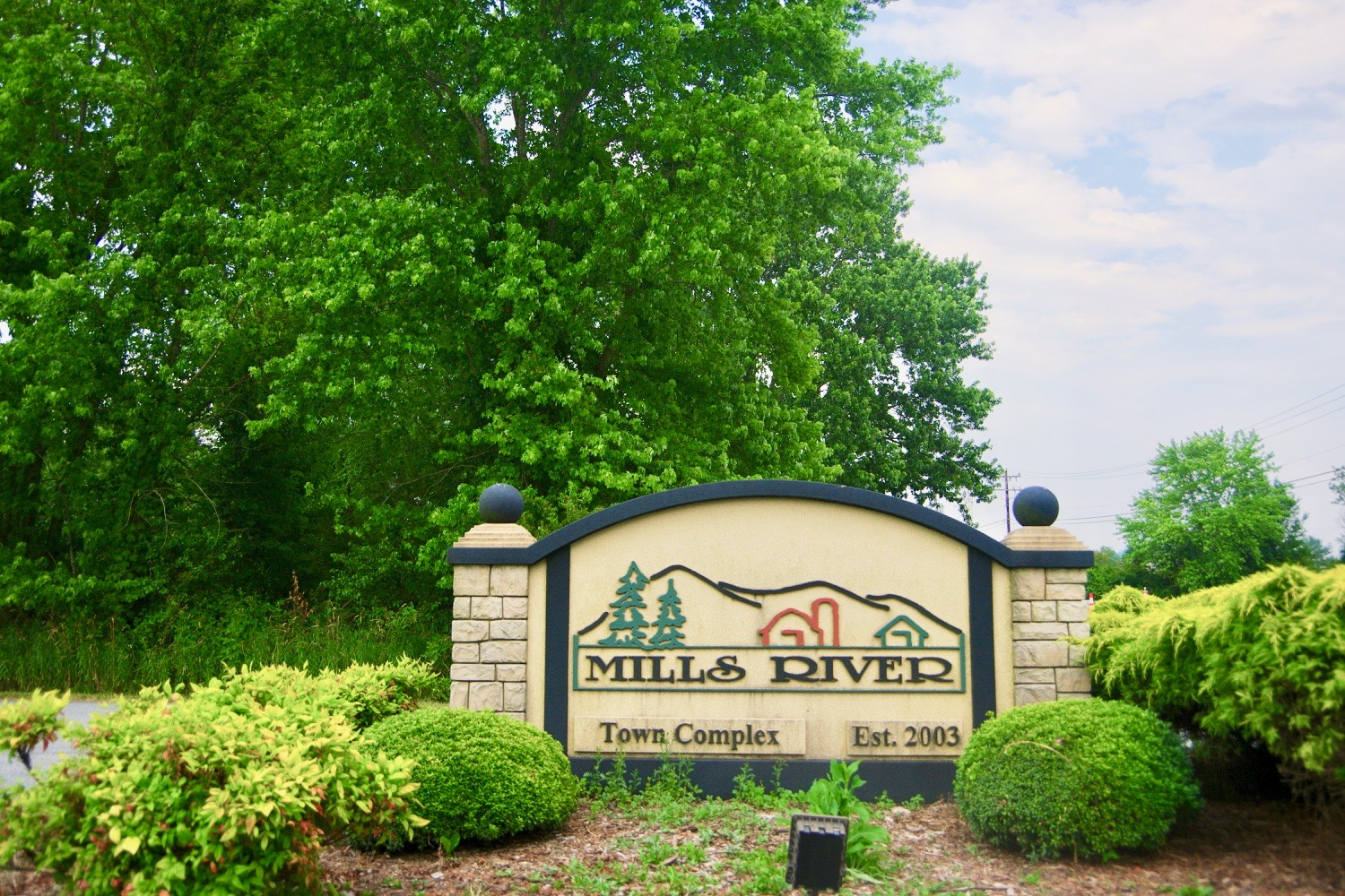 Sign at the entrance to the municipal complex in Mills River, North Carolina, United States.